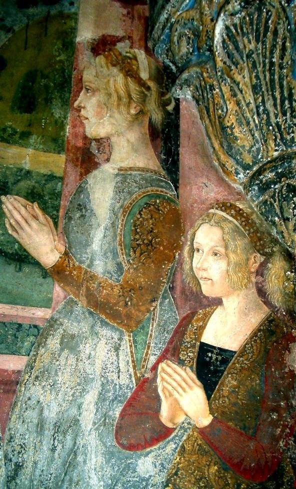 detail depicting the children of Guglielmo VIII Paleologo